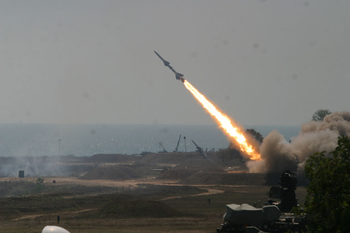 Romanian S-75 Dvina (NATO designation: SA-2 Volhov) missile launch at Capu Midia firing range in 2007, during "ŞOIMUL 2007" military exercise.